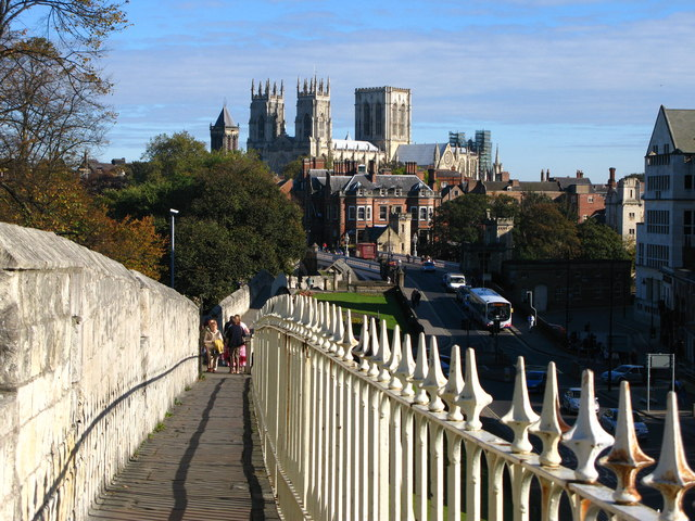 York City Walls York has more miles of intact city walls than anywhere else in England and some sections of the walls date back to Roman times although the majority of the wall dates from the 12th to the 14th century, with a few small areas which were restored in the Victorian period. From here you get a great view northeast towards York Minister.